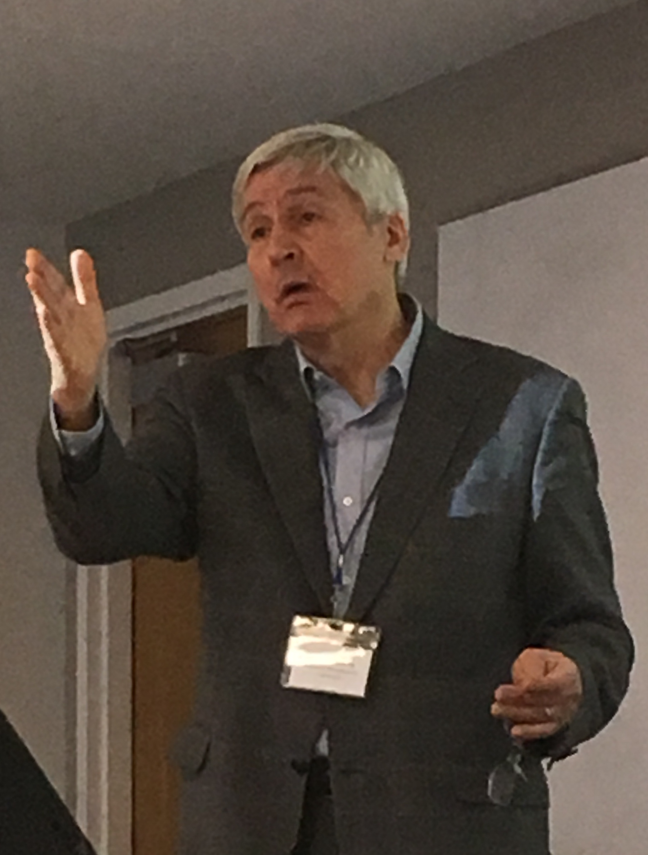 Şevket Pamuk, April 2019, at Georgia State University Spring Conference on Global and Economic History, Atlanta